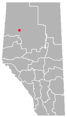 Location of Deadwood, Alberta